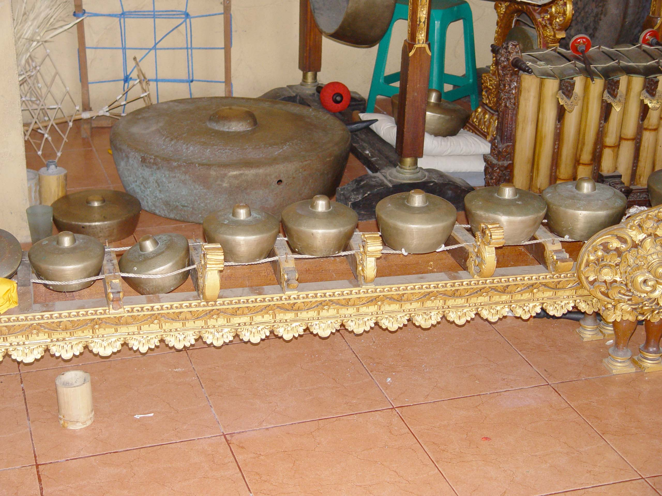 One of Gamelan Instruments of Bali